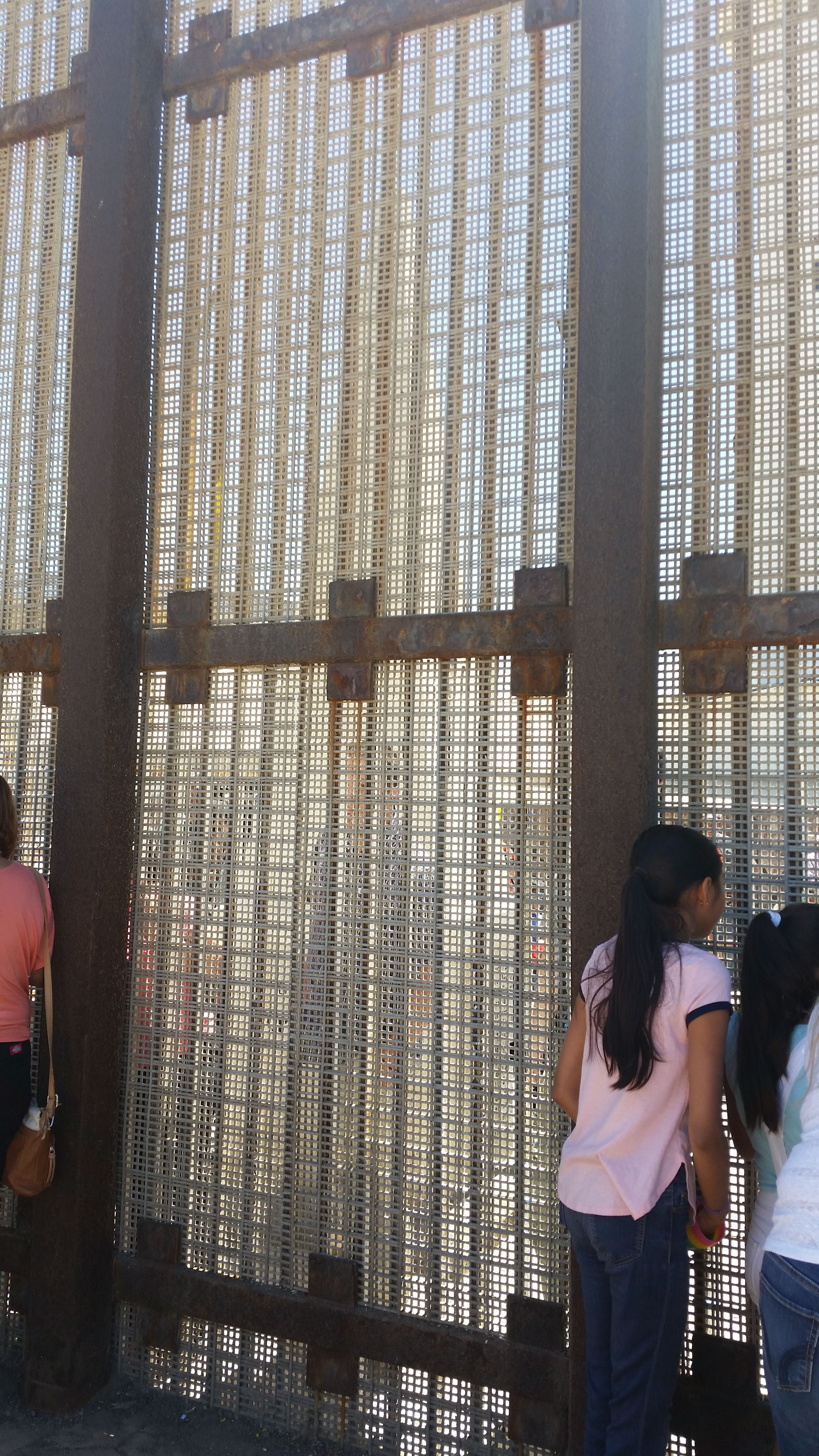 Monument marking the Initial Point of Boundary Between U.S. and Mexico as seen through the US-Mexico barrier. The barrier built a yard within the United States.